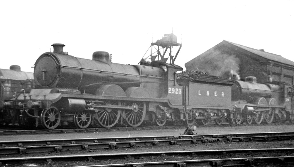 Ex-Great Central Robinson Atlantics at Retford (GN) Locomotive Depot. On a Sunday in 1947, two Robinson 'Jersey Lillies' (see SK9771 : Ex-Great Central Robinson Atlantic at Lincoln Locomotive Depot) ex-GC C4 4-4-2's (Nos. 2923 and 2906) rest at the ex-Great Northern Shed at Retford, which was beside Retford Station on its west side. (The ex-GC Depot was beside the line to Lincoln).